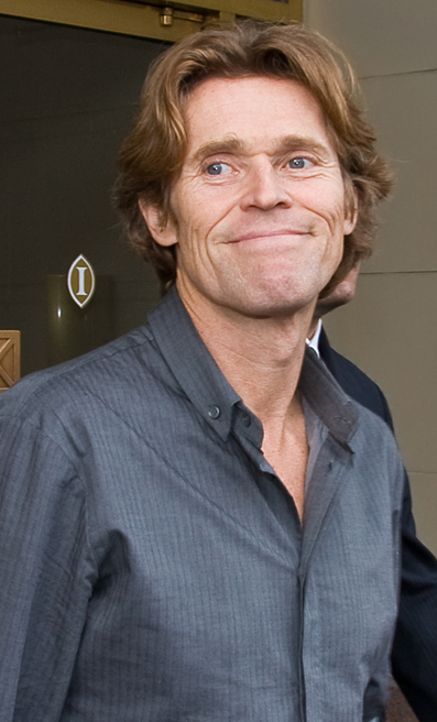 Willem Dafoe at the 2009 Toronto International Film Festival.